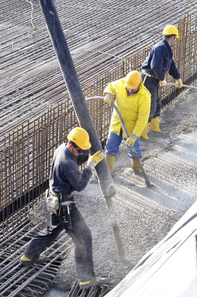 Modern concrete processing